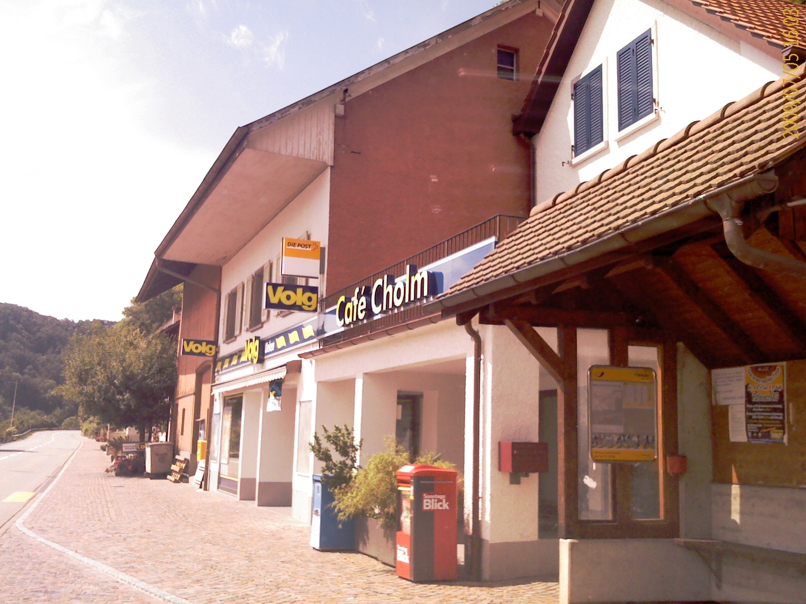 Volg Supermarcet at Ueken, canton of Aargau, SwitzerlandEsperanto: Volg-supermerkato en Ueken, Kantono Argovio, Svislando